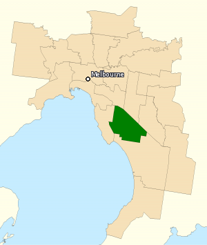 This image incorporates data that is: © Commonwealth of Australia (Australian Electoral Commission) 2009 Division of Hotham 2010